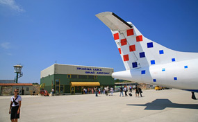 Airport on the island of Brac